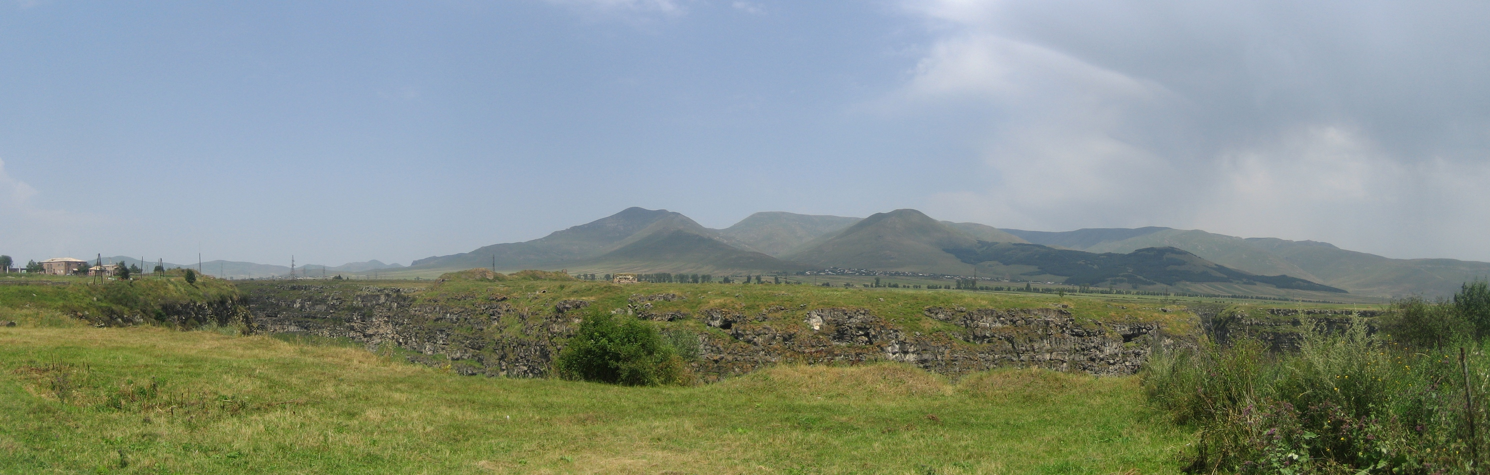 The ruins of the medieval Armenian fortress, Lori Berd, near the village of the same name in Armenia's northern province of Lori as seen from Amrakits. The ruins are at the center of the image and are mainly the walls, bath houses, and a church. The Dzoraget river is in the foreground forming the gorge, and on the right it meets the gorge formed by the Tashir river. The village in the background is Lejan. Panorama created with Hugin software.